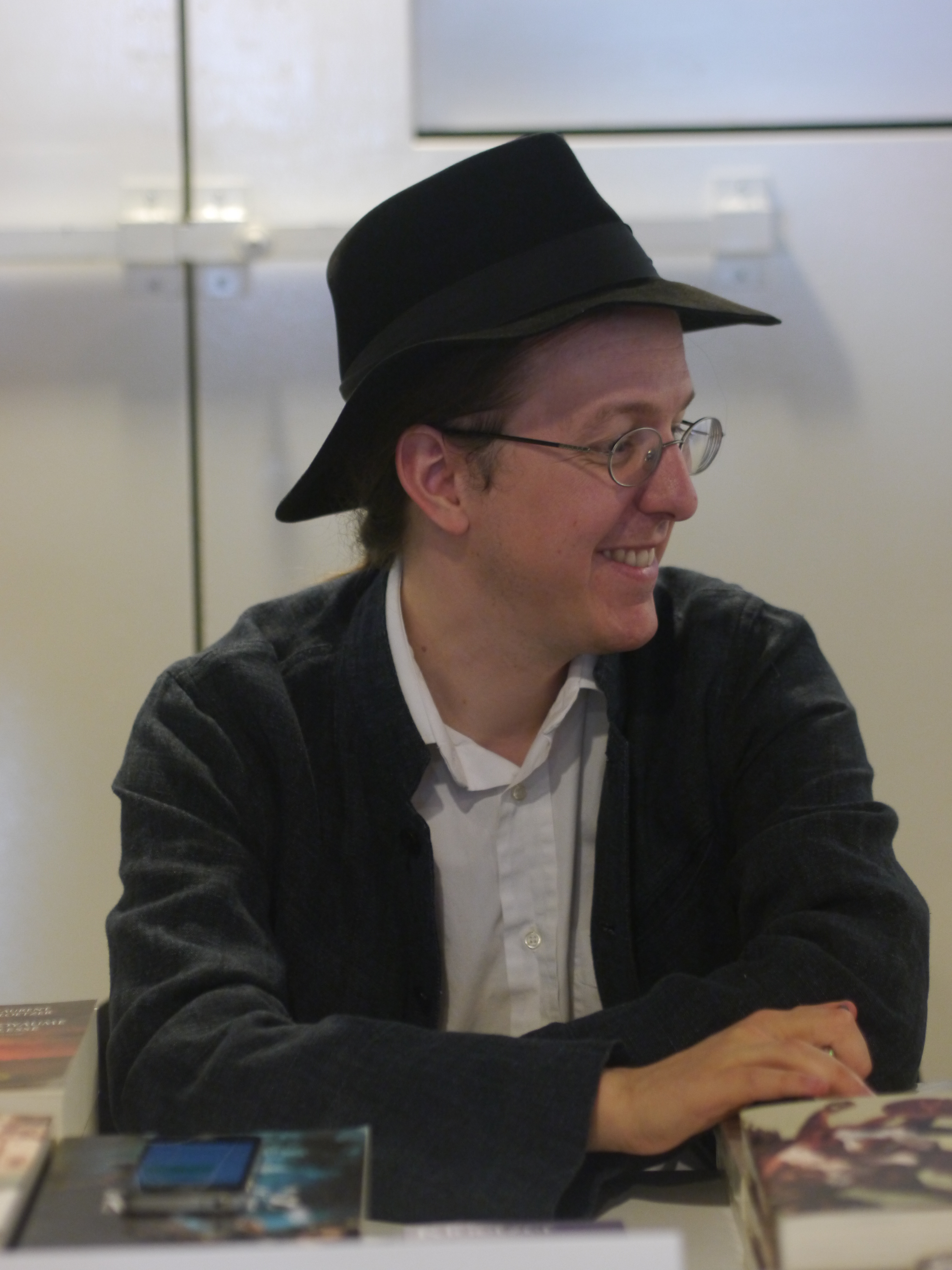 photograph taken at the 2014 edition of the "Utopiales" in Nantes.